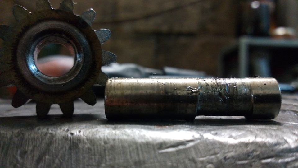 The differential satelite's shaft is grinding by the abrasive parts in oil of transfer case NV-242 from Jeep Grand Cherokee (WJ).